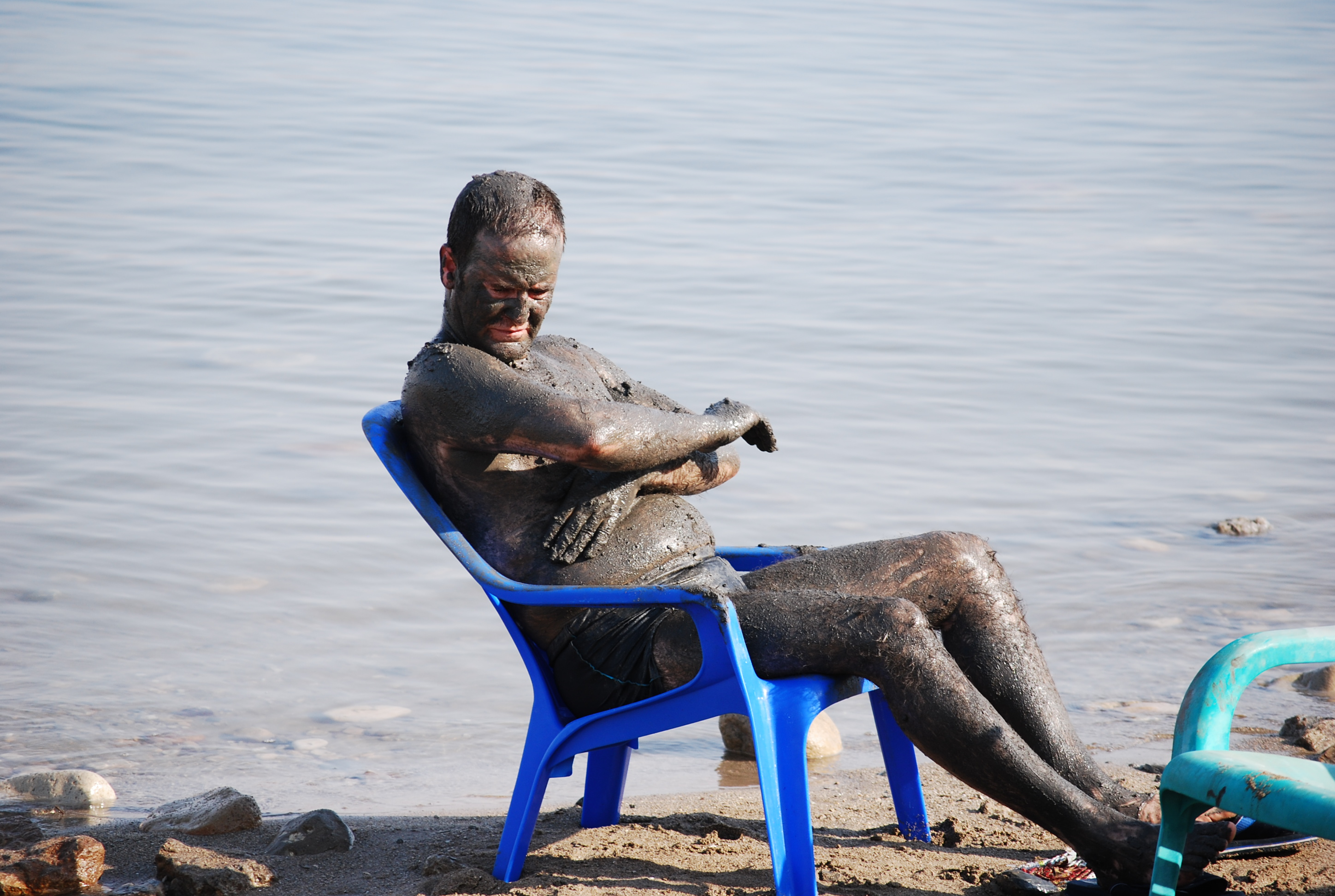 A guy enjoying a mud bath Dead Sea